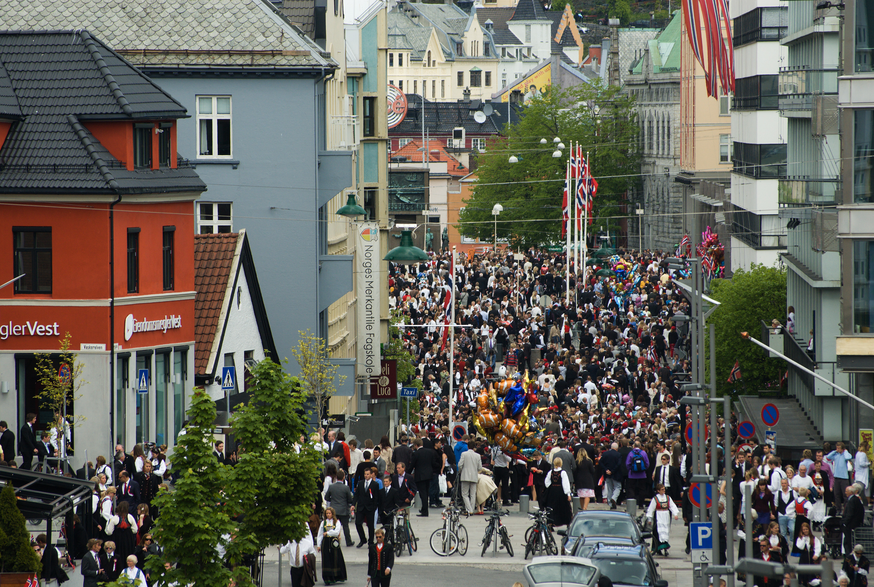 Vestre Torggaten and Torgallmenningen (background) in Bergen, Norway, on Norway's Constitution Day, May 17, in 2009.